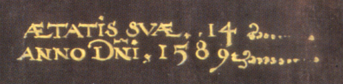 Inscription by Hieronimo Custodis from a signed and date portrait of Elizabeth Brydges, 1589.